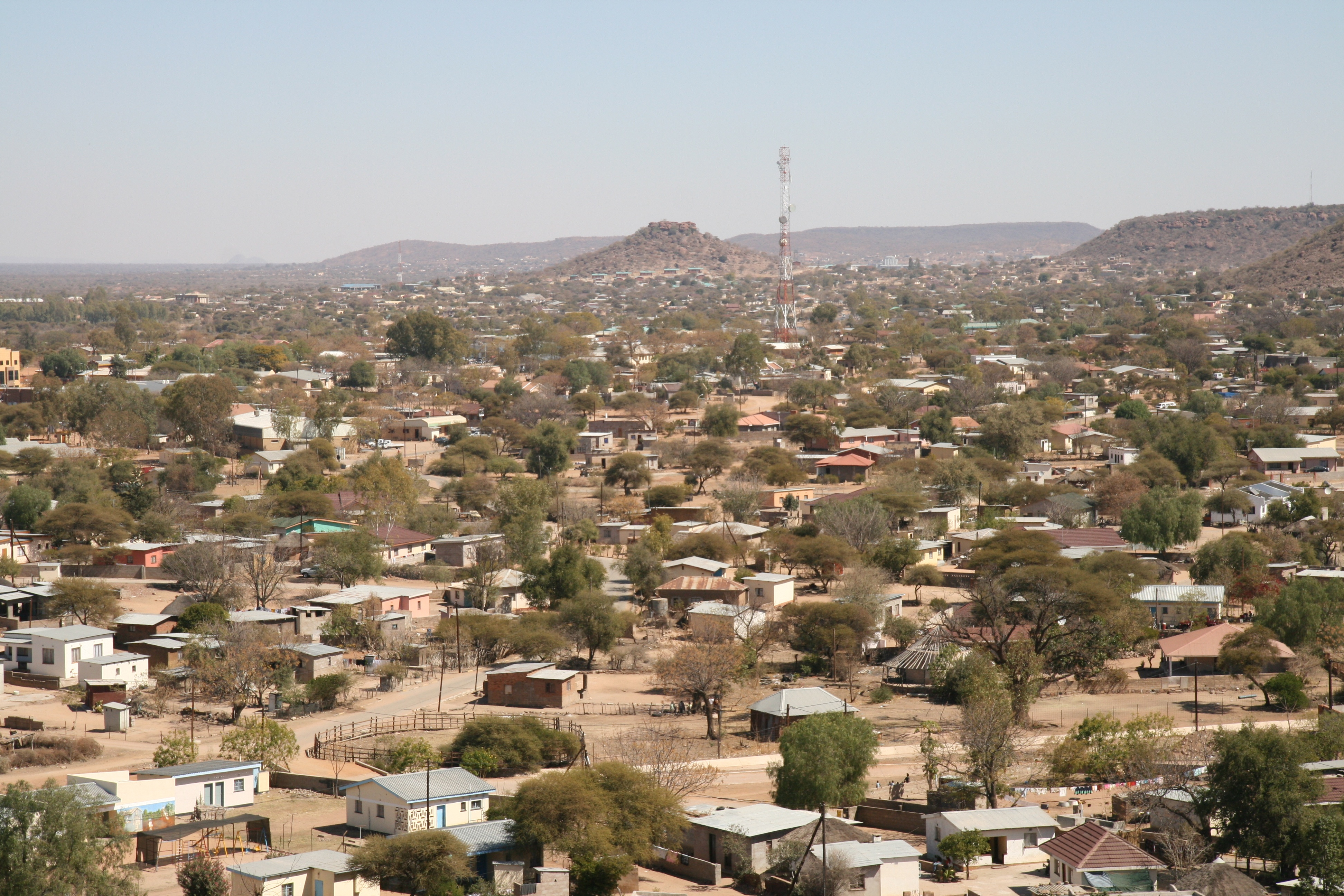 The village of Mochudi, in Kgatleng District, Republic of Botswana (August 2007)